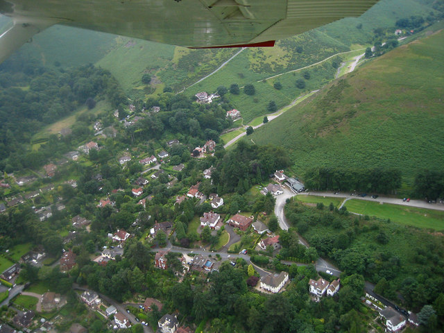 Church Stretton Original description: Church Stretton from the air This picture was taken from a Cessna 172 on a pleasure flight from Welshpool airport.